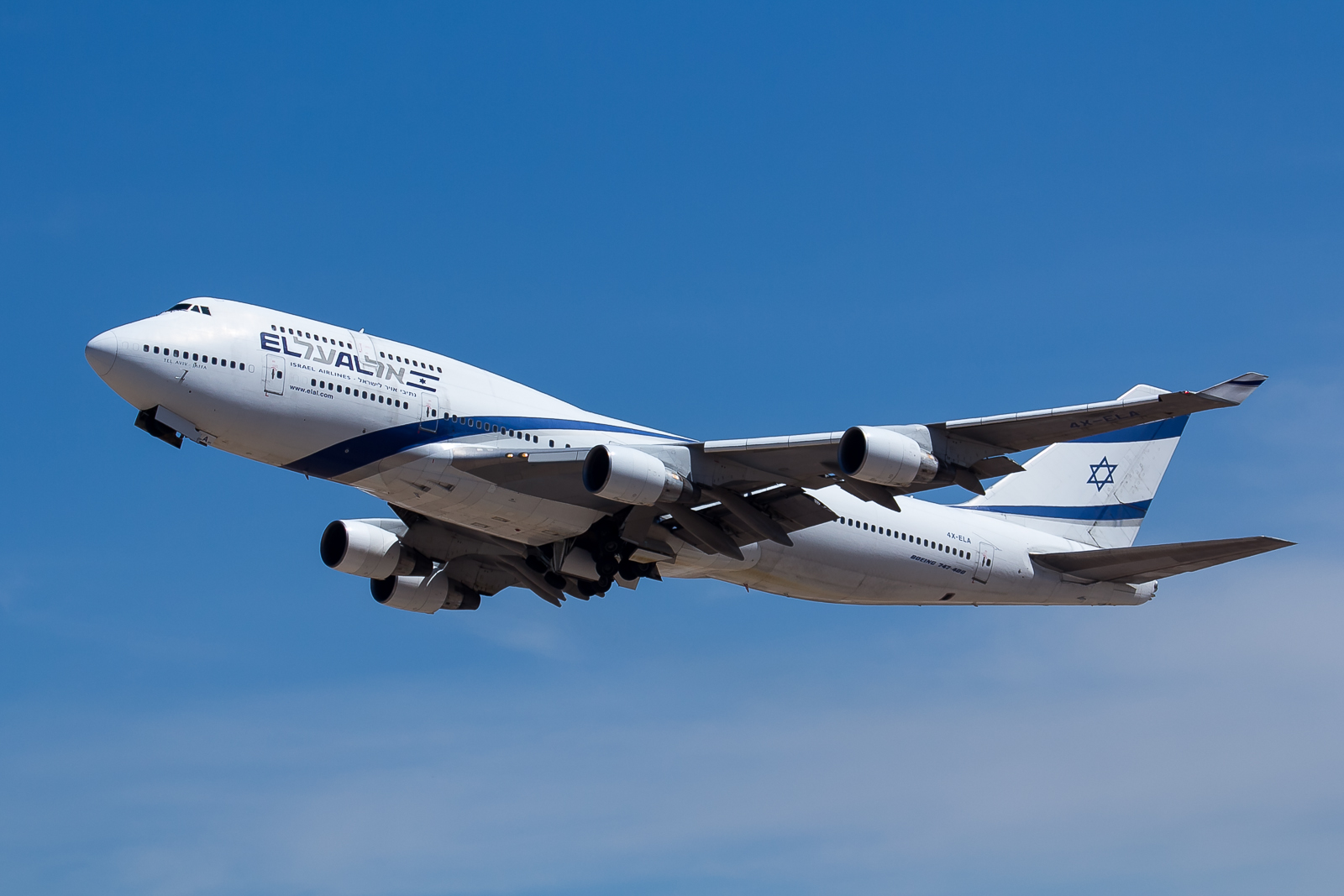 El Al Boeing 747-400 4X-ELA "Tel Aviv Yafo" taking off from Ben Gurion International Airport